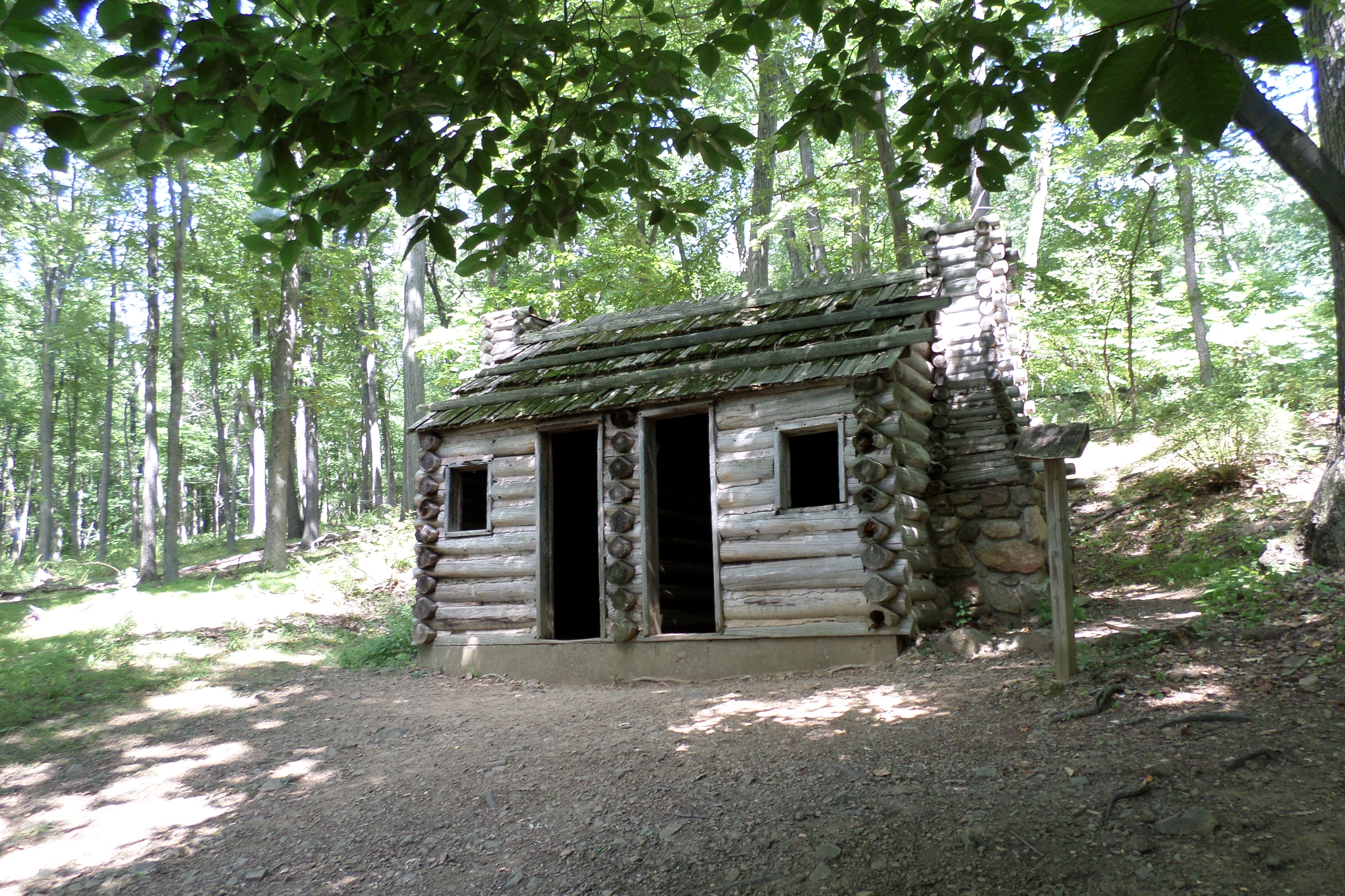 Hut at Jockey Hollow, Morristown National Historical Park (July 2015)